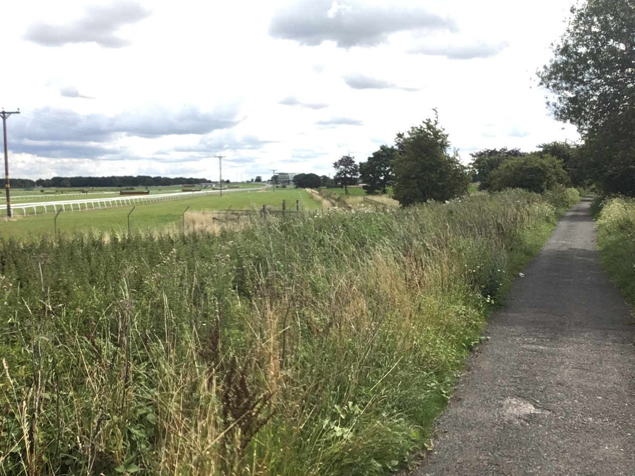 View of Wetherby Racecourse from the National Cycle Network route 655.